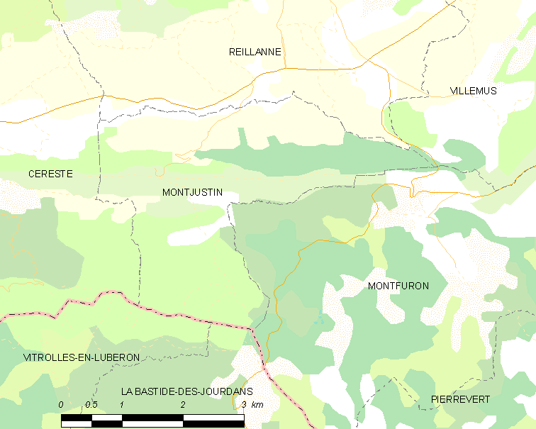 Map commune FR insee code 04129.png Légende